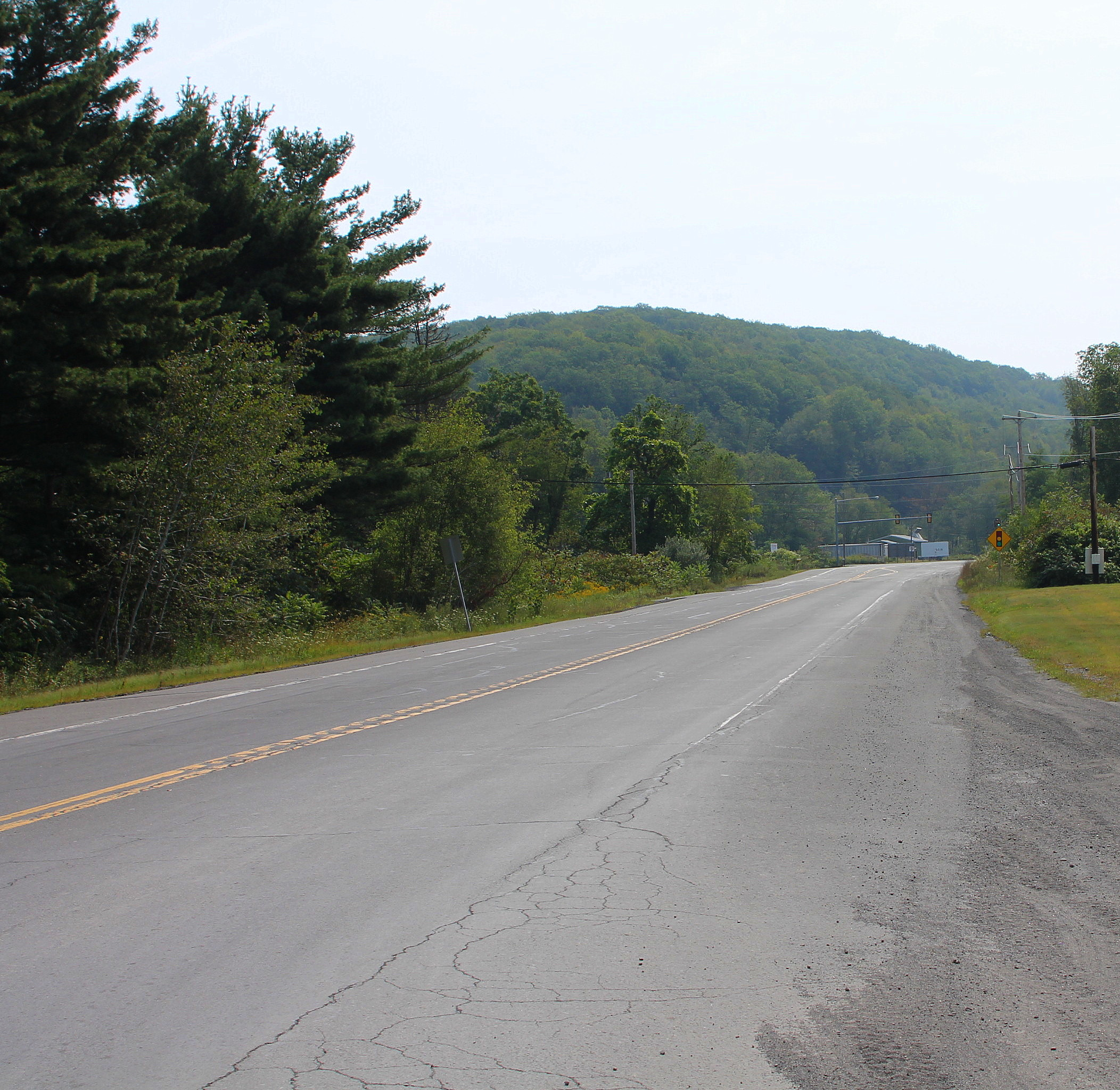 Pennsylvania Route 901 east